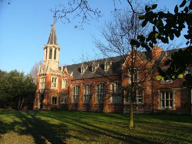 King Edward VI Grammar School. Now known as The Oaks High school